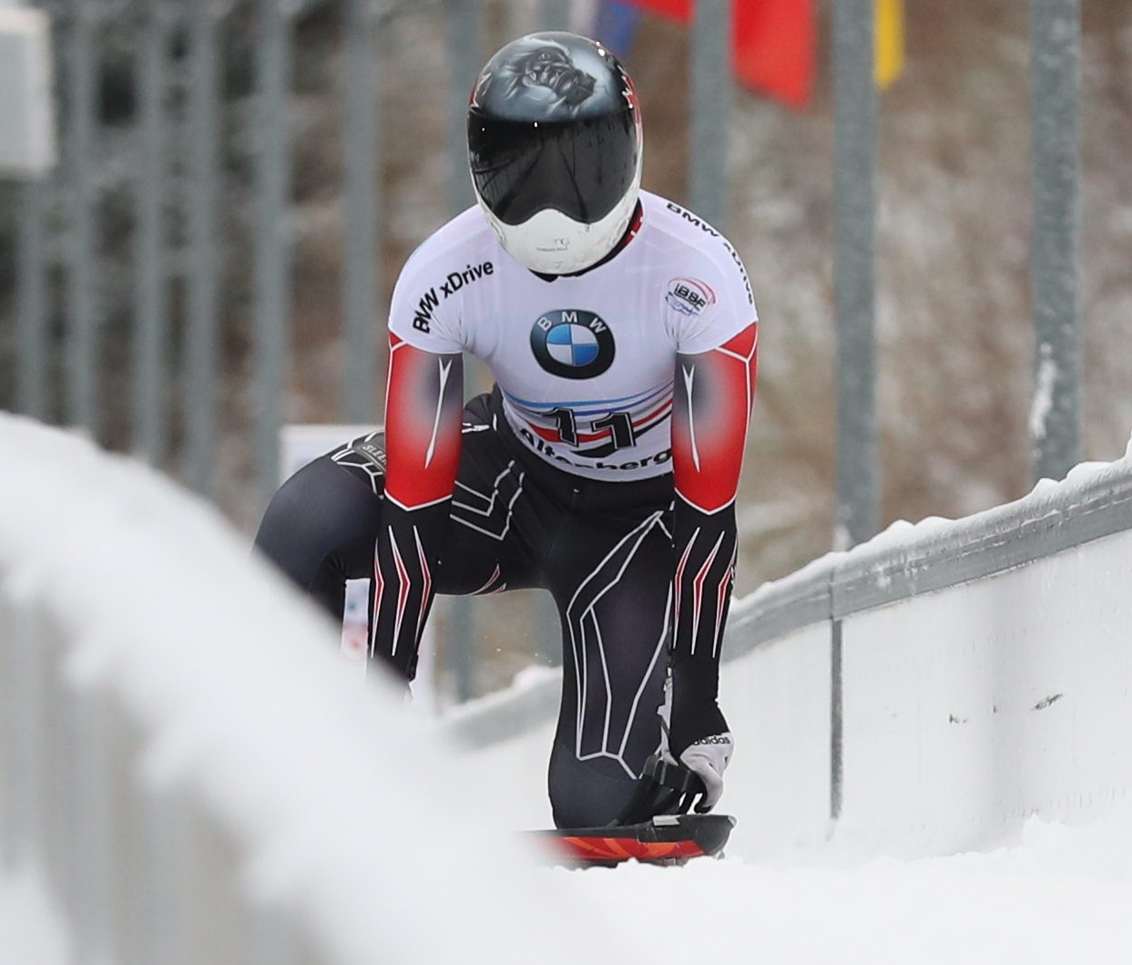 Women's World Cup race at the 2018/19 Skeleton World Cup in Altenberg